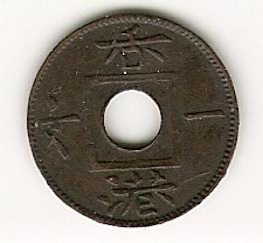 Out of copyright.